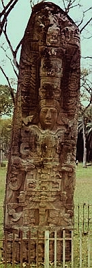 Quirigua, Guatemala: "Stela D", north face; monument of the ancient Maya civilization, dedicated in 766. I visited Quirigua several times between 1975 and 1980; I think this photo from my 1979 visit. -- Infrogmation Previously uploaded by me to Wikipedia on 19:55, 18 June 2003.